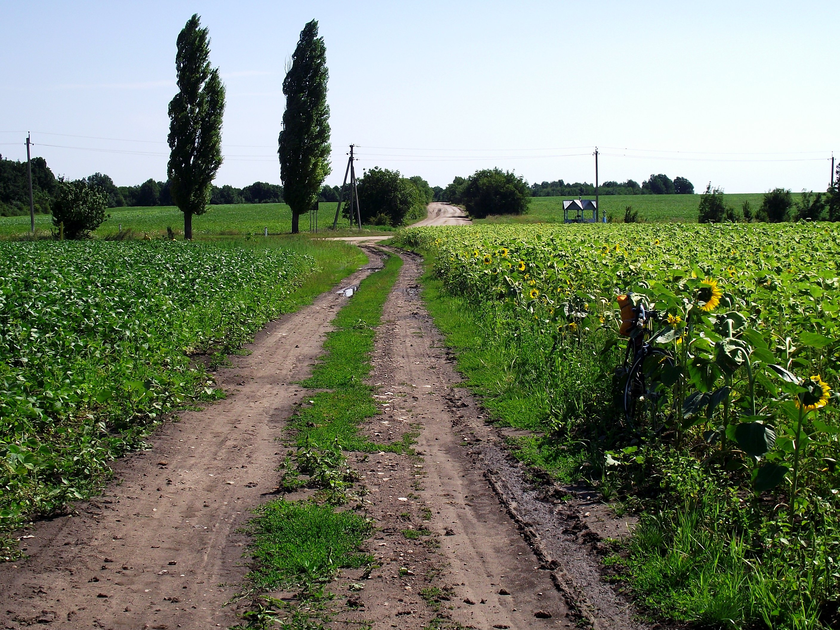 L172.1, Cușmirca, Moldova